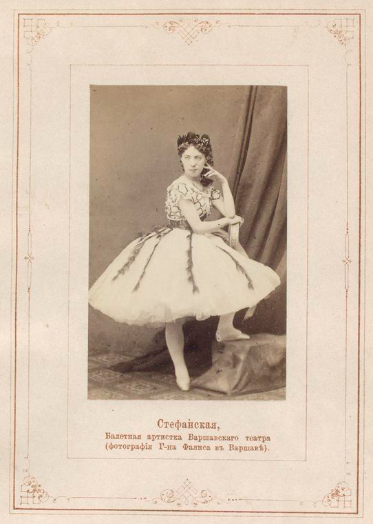 Kamila Stefańska (1838-1902), prima balerina of Teatr Wielki in Warsaw between 1862 and 1868 (as Esmeralda). Later baroness Camilla von Kleydorff.